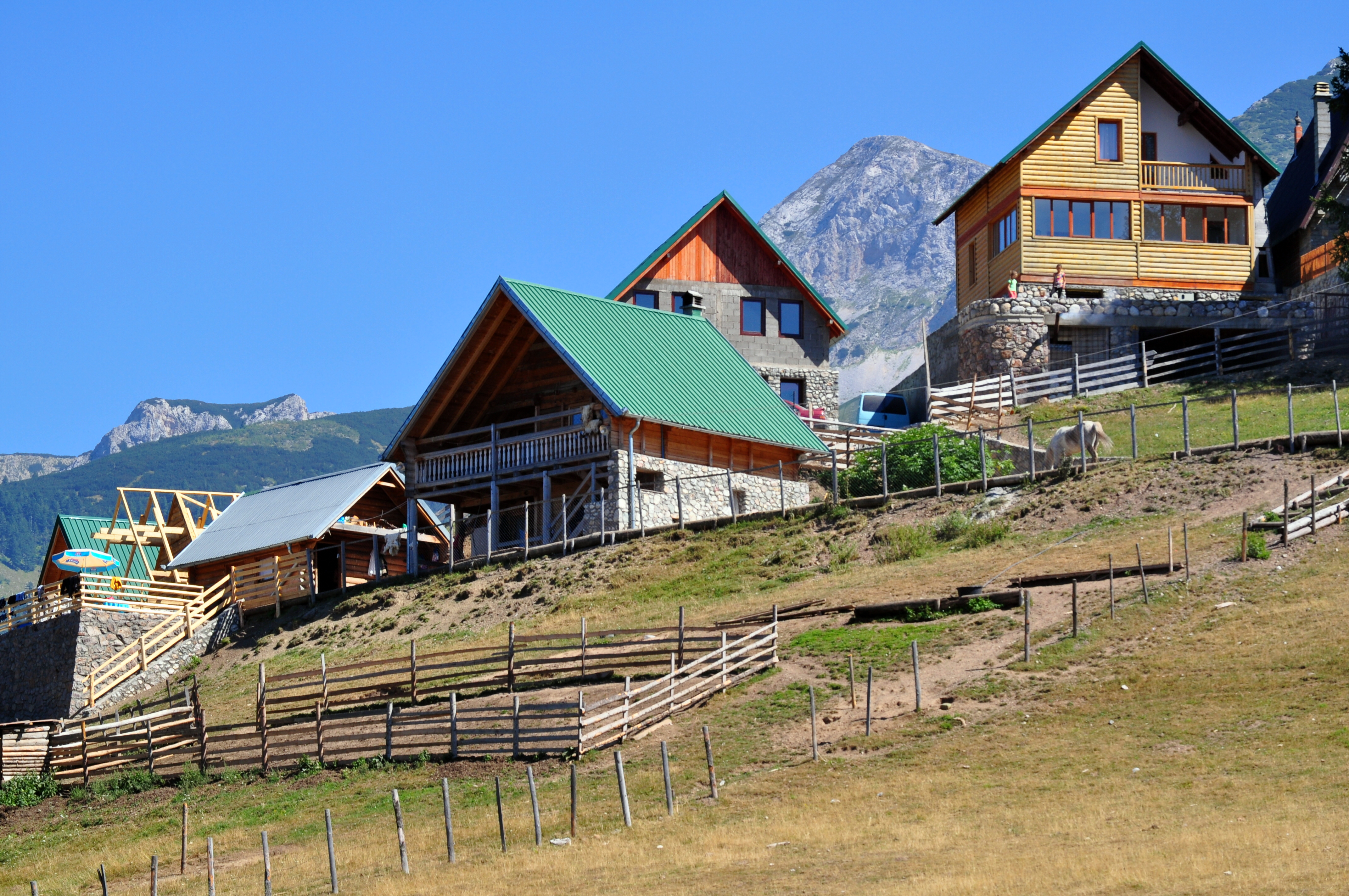 rugova